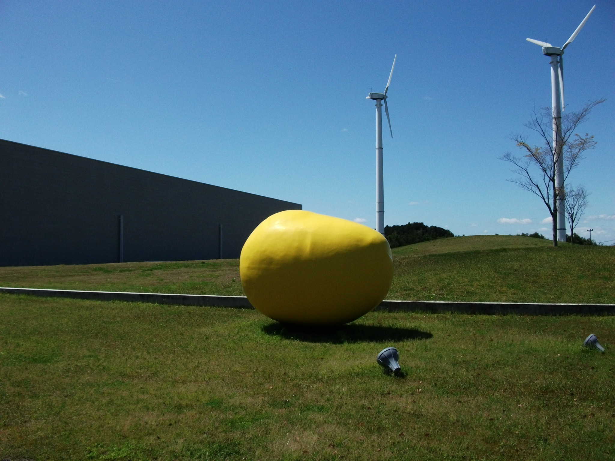 ROCK FIELD Shizuoka factory(Iwata, Shizuoka, Japan)